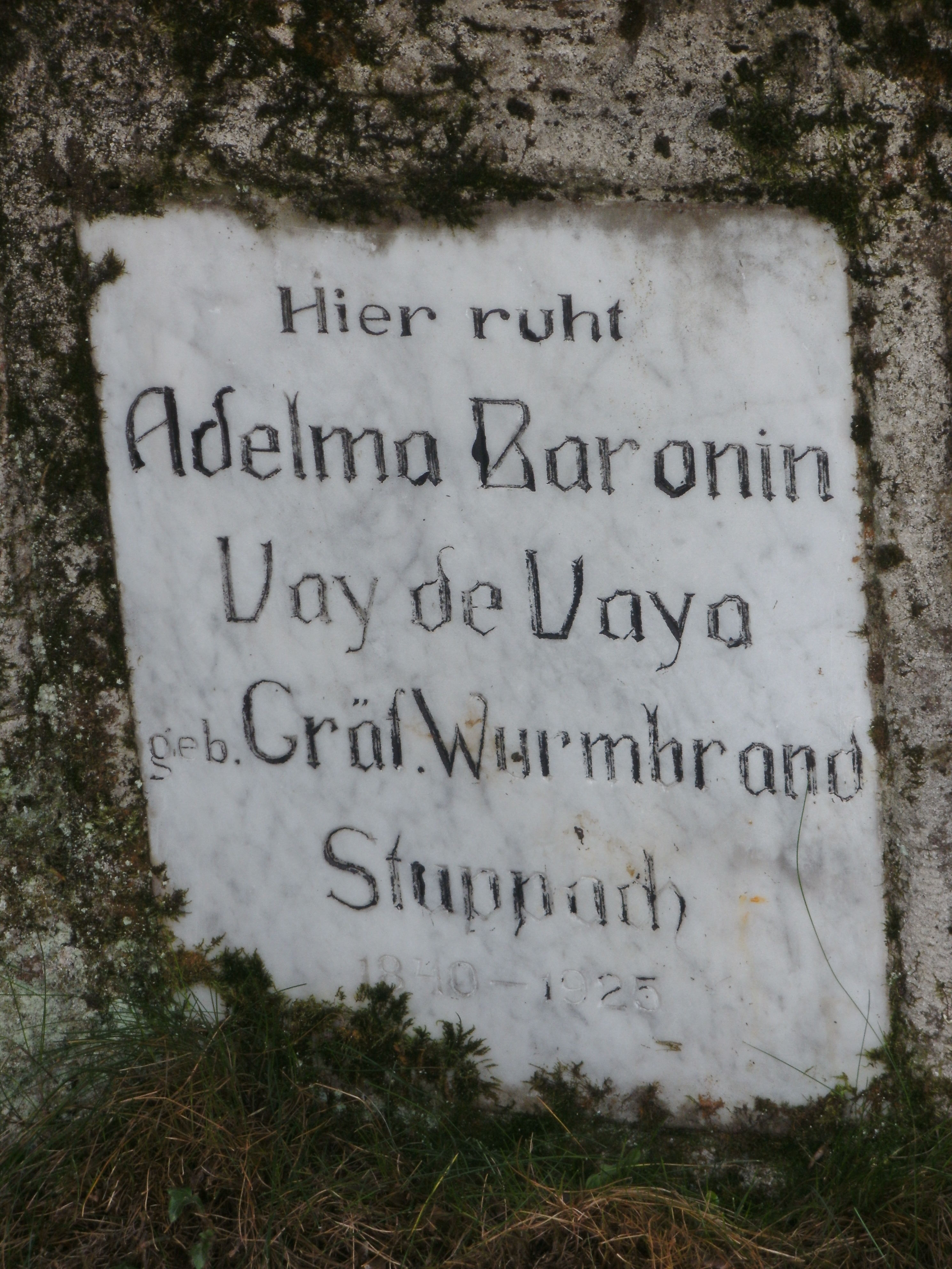 baroness Adelma Way's grave at Slovenske Konjice